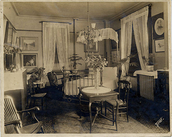 New Orleans "Interior of President Taft's bedroom at Greenwald" Notes: William Howard Taft visited New Orleans twice in 1909, once in February as President Elect, and again in October as President. As Taft seems to have stayed at the St. Charles Hotel for his October 1909 visit, this is presumably from his February visit. "Greenwald" is probably a typo for the Gruenwald Hotel, one of the city's leading hotels, later renamed "The Roosevelt".